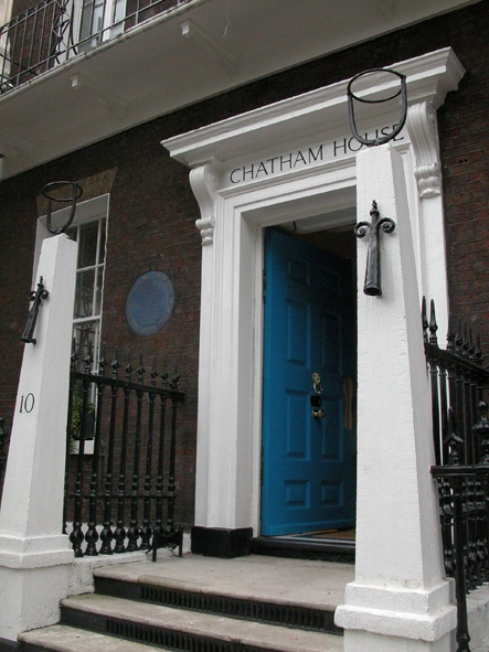 Chatham House is based at number 10, St James's Square in London.